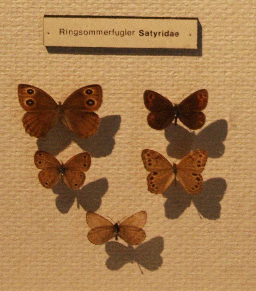 Satyridae specimens, University of Oslo: Zoological Museum